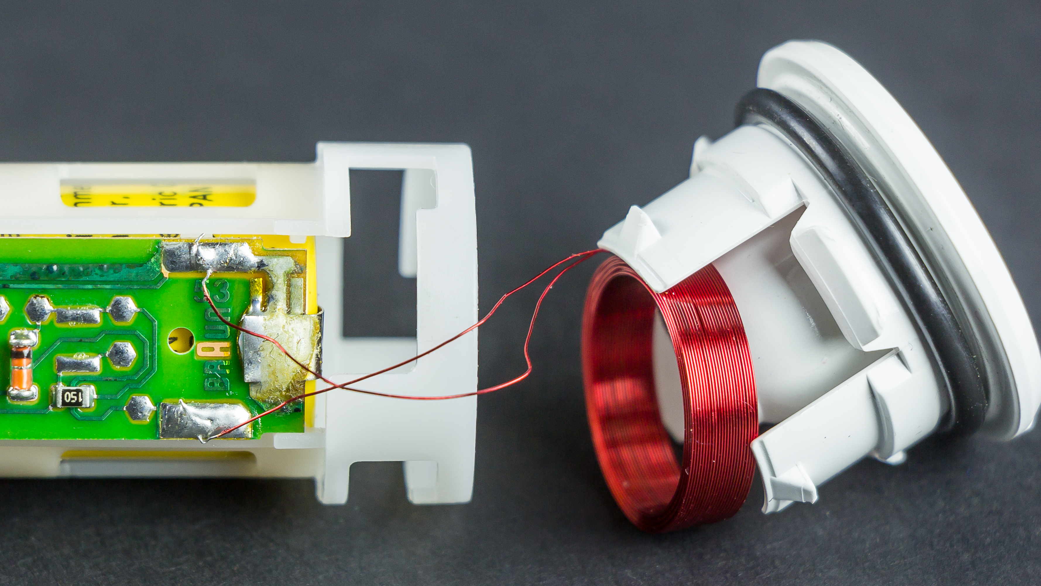 Braun 4728 - Wire coil for inductive coupling at the bottom of the electric toothbrush